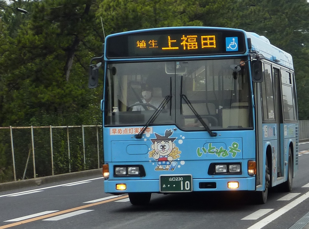 Sanyo-Onoda City Itone Community Bus - Funaki Railway